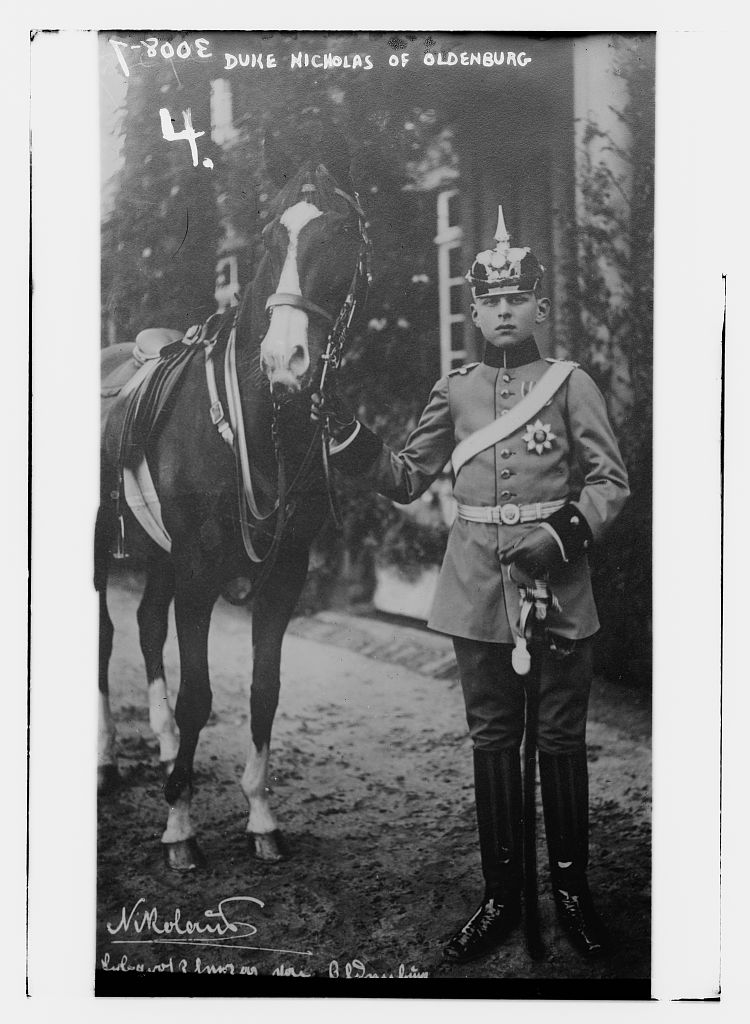 Nikolaus, Hereditary Grand Duke of Oldenburg (German: Nikolaus Friedrich Wilhelm von Holstein-Gottorp, Erbgroßherzog von Oldenburg; 10 August 1897 – 3 April 1970) was the eldest son of Frederick Augustus II, Grand Duke of Oldenburg, last ruling Grand Duke of Oldenburg. He was the titular pretender from 1931 until his death. Bain News Service,, publisher. Duke Nicholas of Oldenberg [between ca. 1910 and ca. 1915] 1 negative : glass ; 5 x 7 in. or smaller. Notes: Title from unverified data provided by the Bain News Service on the negatives or caption cards. Forms part of: George Grantham Bain Collection (Library of Congress). Format: Glass negatives. Repository: Library of Congress, Prints and Photographs Division, Washington, D.C. 20540 USA, General information about the Bain Collection is available at Persistent URL: Call Number: LC-B2- 3008-7